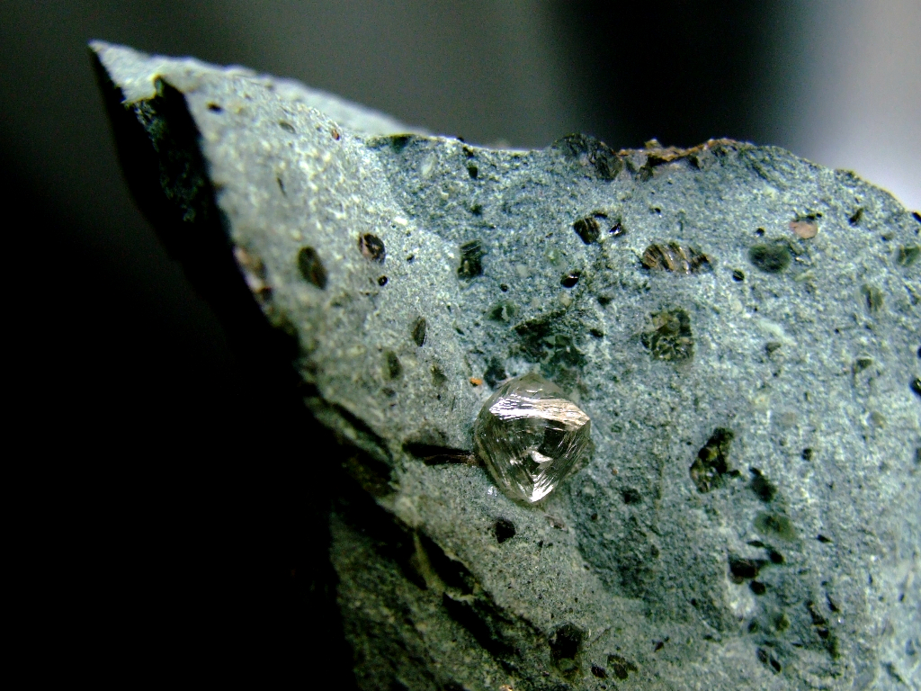 Octahedral, approx. 1.8 carat (6 mm), diamond crystal in kimberlite matrix from Finsch Diamond Mine, South Africa.